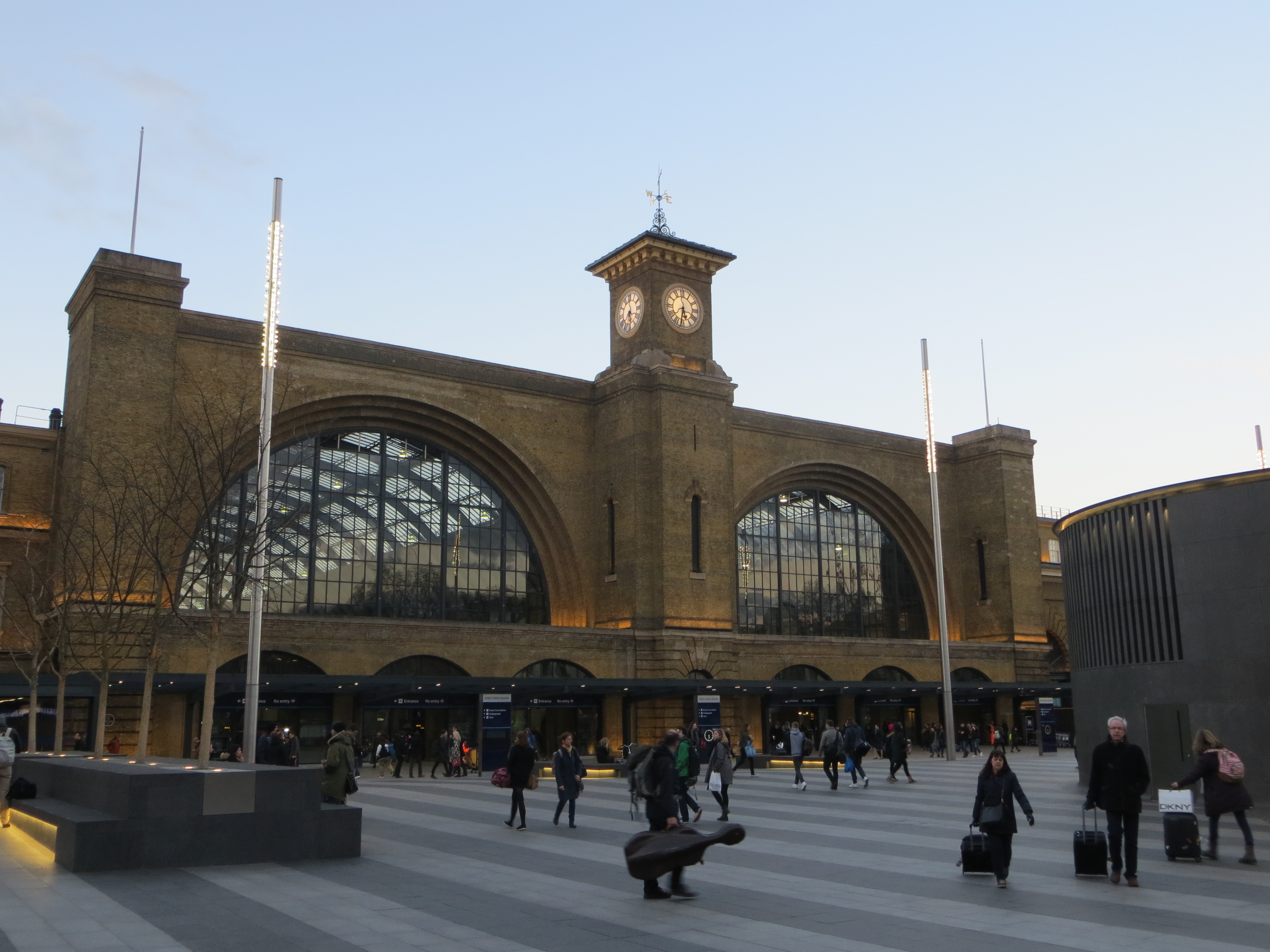 King's Cross